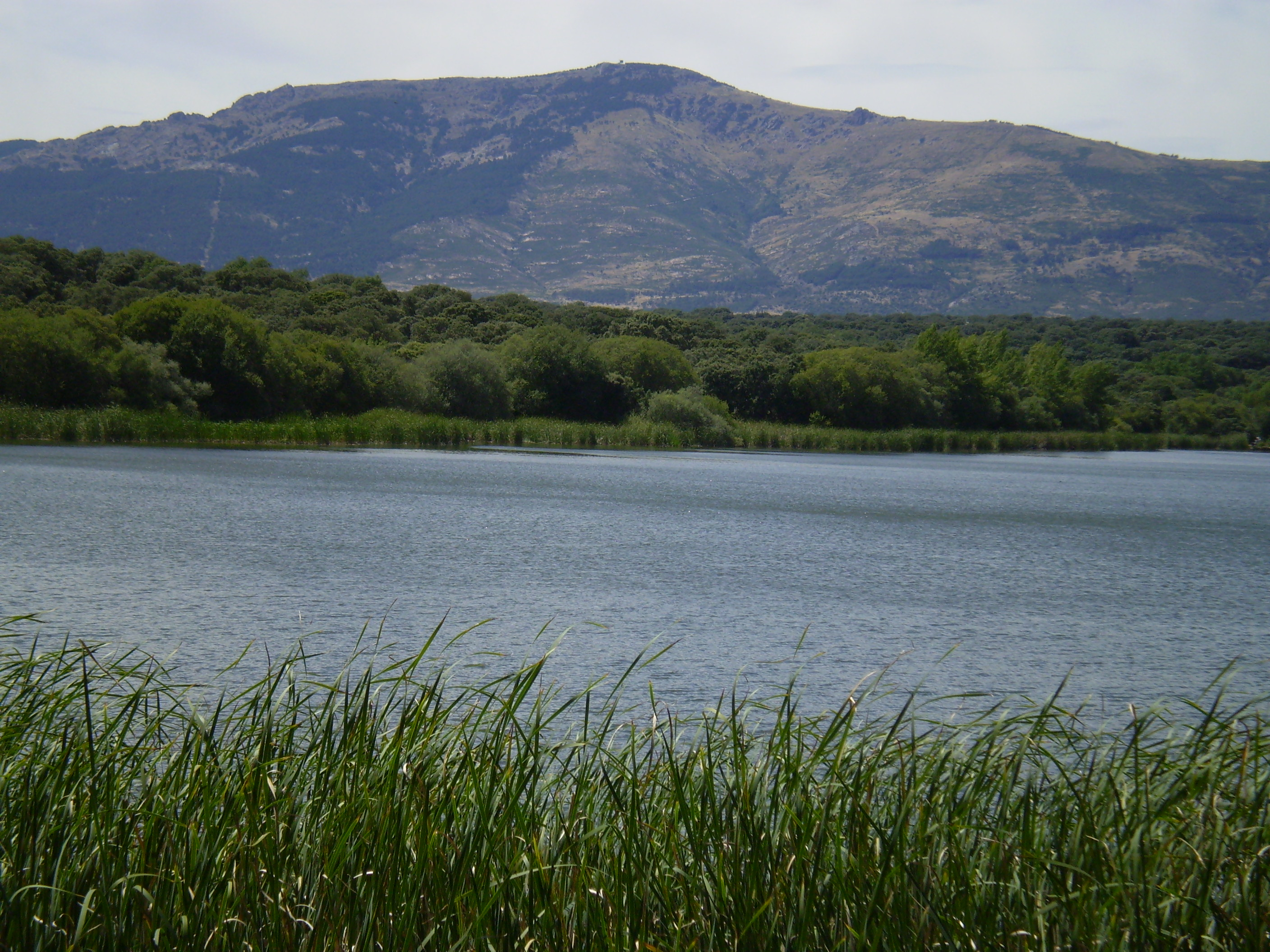 Arroyo Ladrón, in Los Arroyos reservoir. Community of Madrid, Spain